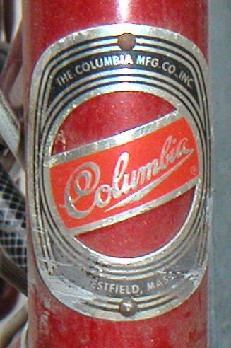 Taken by Andrew Dressel